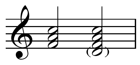 IV vs ii7 without root.